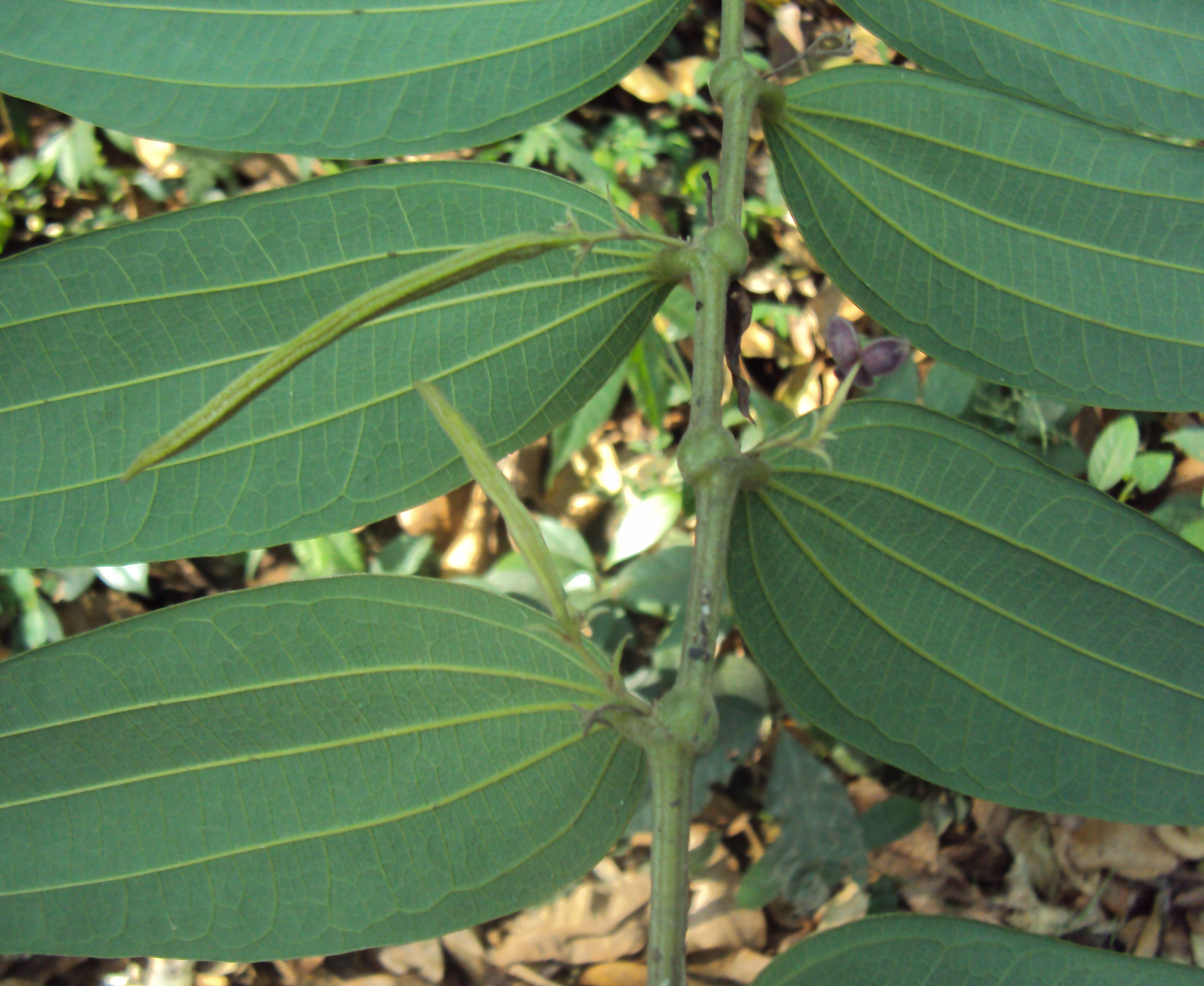 Thottea sivarajanii